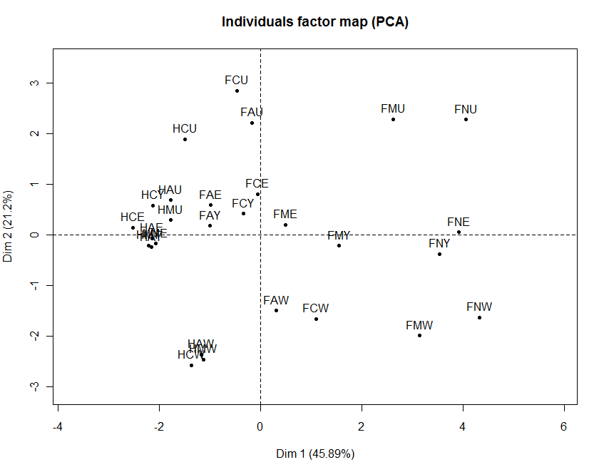 A PCA plot drawn with R explaining the individual contribution to the two principal components